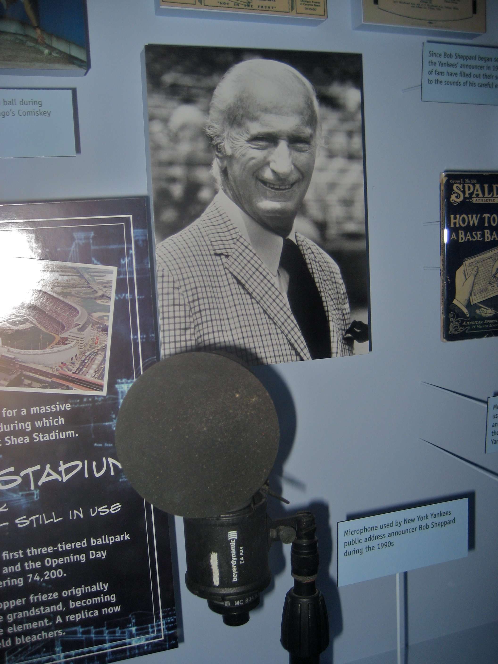 Microphone used during the 1990s by PA Announcer Bob Sheppard at the National Baseball Hall of Fame in Cooperstown. Beyerdynamic MC 834 condenser microphone